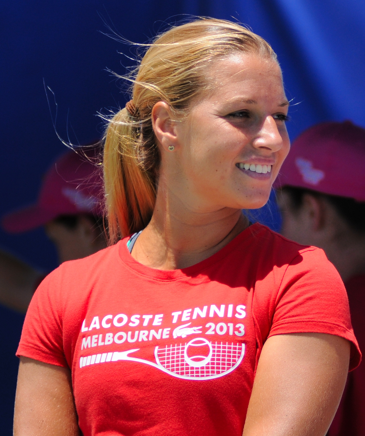 Dominika Cibulková at the 2013 Southern California Open